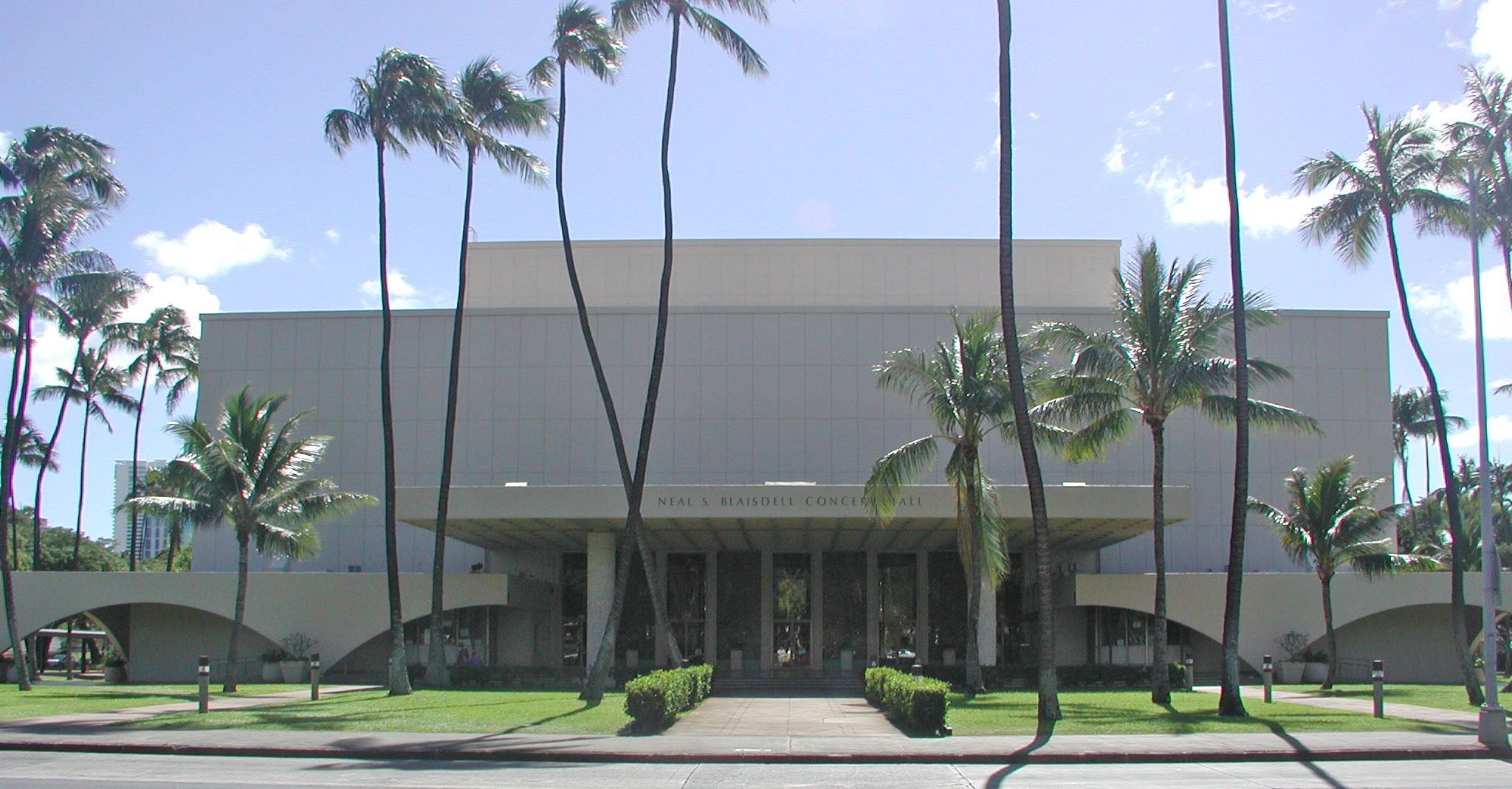 Blaisdell Concert Hall, South King Street and Ward Avenue, Honolulu, Hawaii